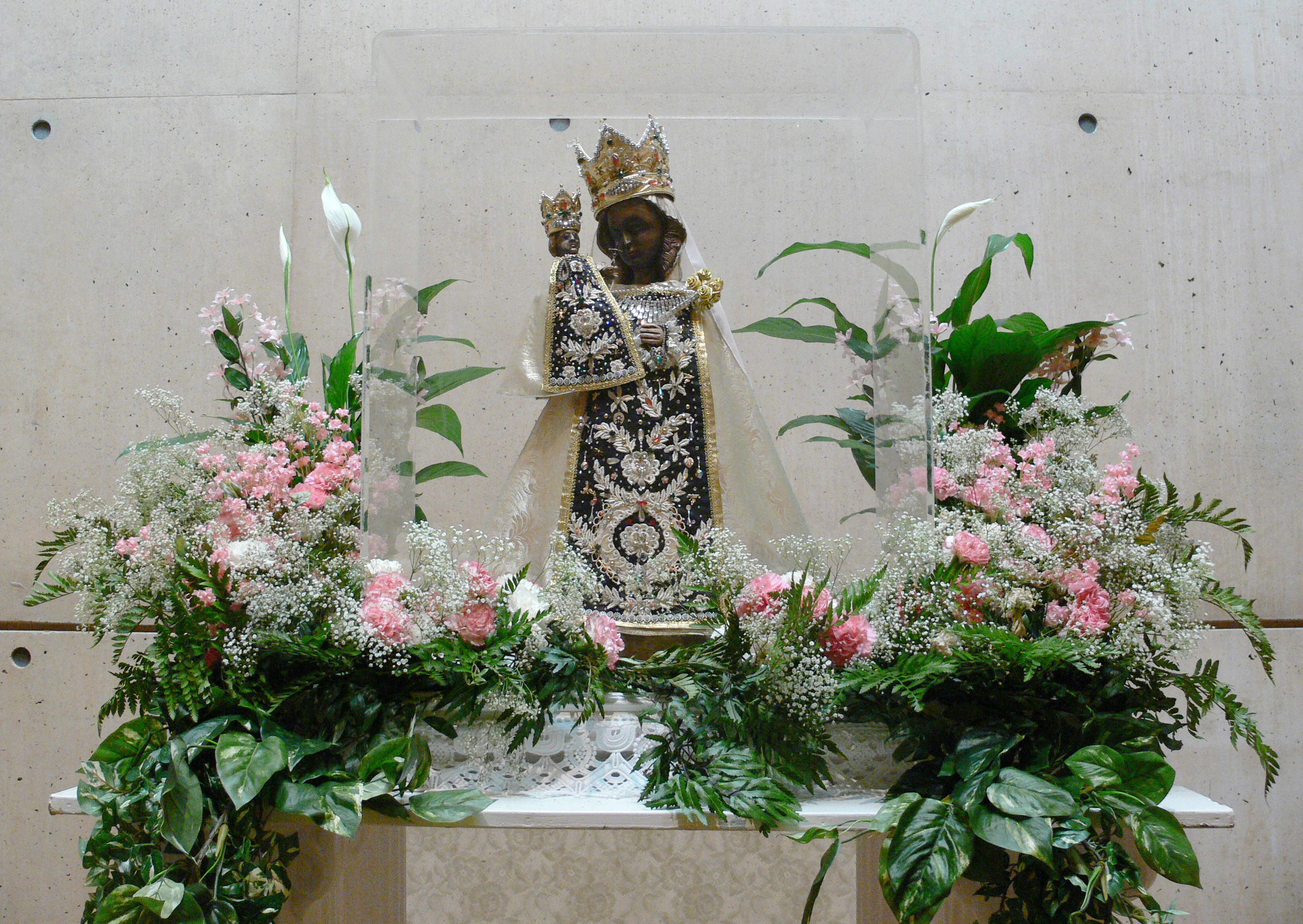 Roman Catholic Cathedral of Our Lady of the Angels, Los Angeles, California Copy of the Black Madonna of Altötting (Germany)